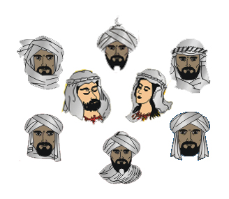 Moorish heads and faces as seen in the coat-of-arms of Algarve, Silves, Portimão, Vola Real de Santo António, Tavira, Alcoutim, Lagoa, Loulé, São Brás de Alportel, Castro Marim, Abulfeira, Vila do Bispo, Aljezur, Monchique and others; the couple in the centre is from the the coat-of-arms of Évora, not in Algarve.